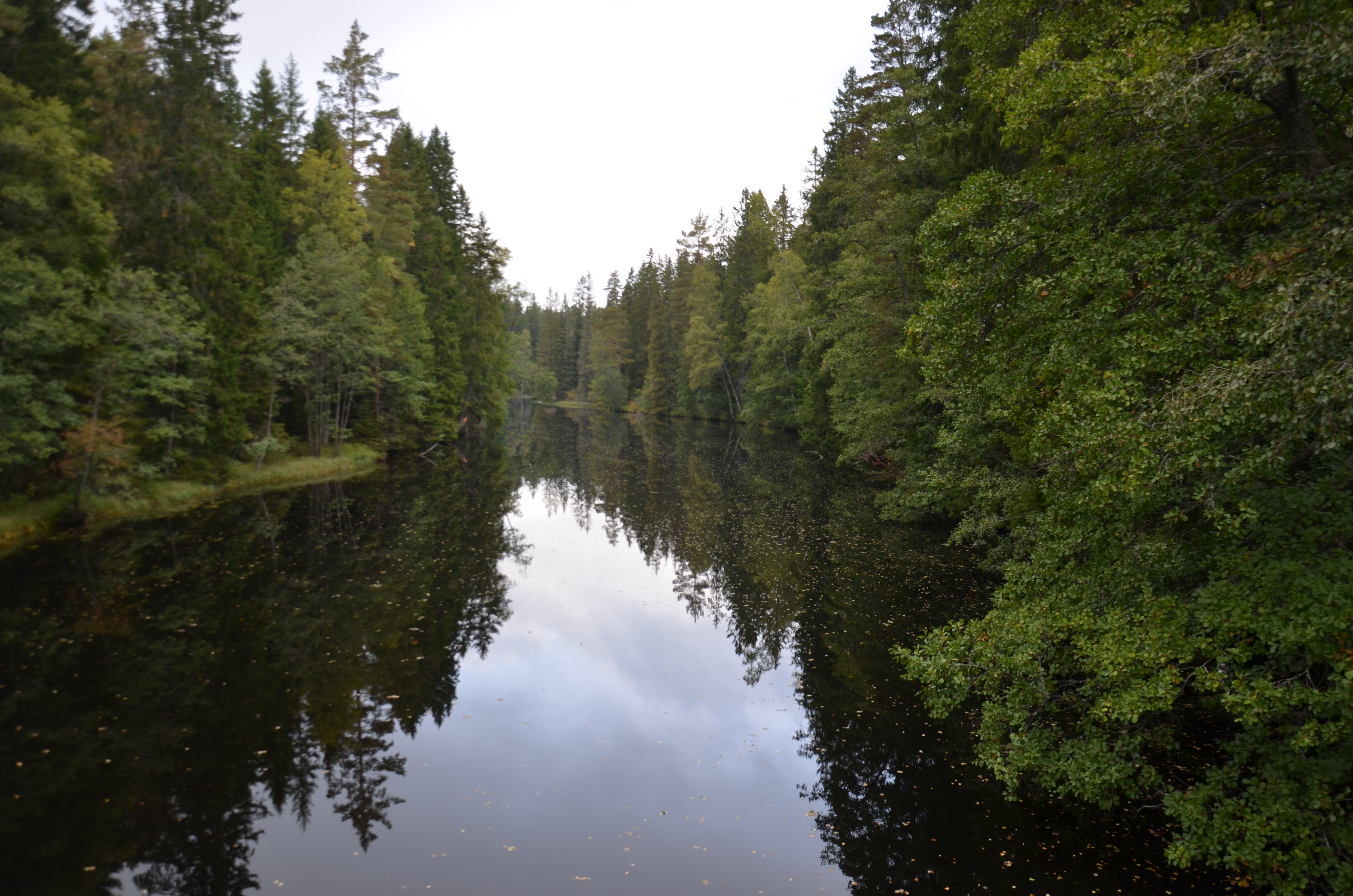 Svartälven vid Krokbornsparken utanför Hällefos